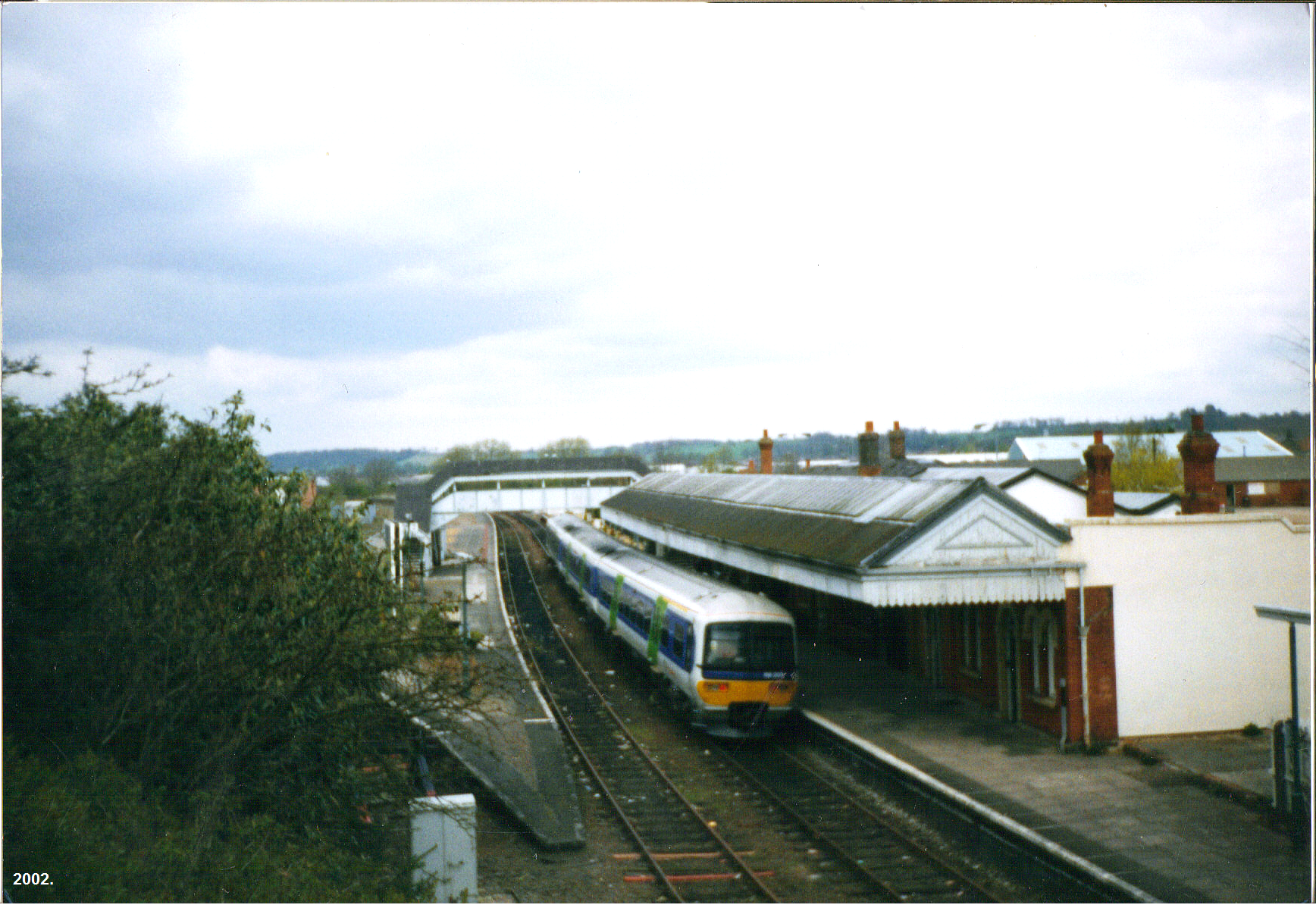 I took the picutre of this Thames Turbo Exspress myself at Stratford Upon Avon station in the year 2002. I hereby release it in to the public domain.